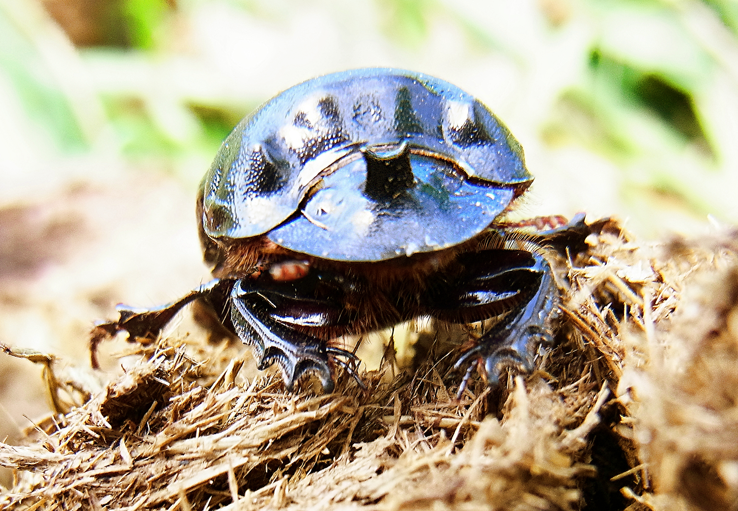 Copris lunaris female, from Southern Hungary near Kelebia at 2012-05-26